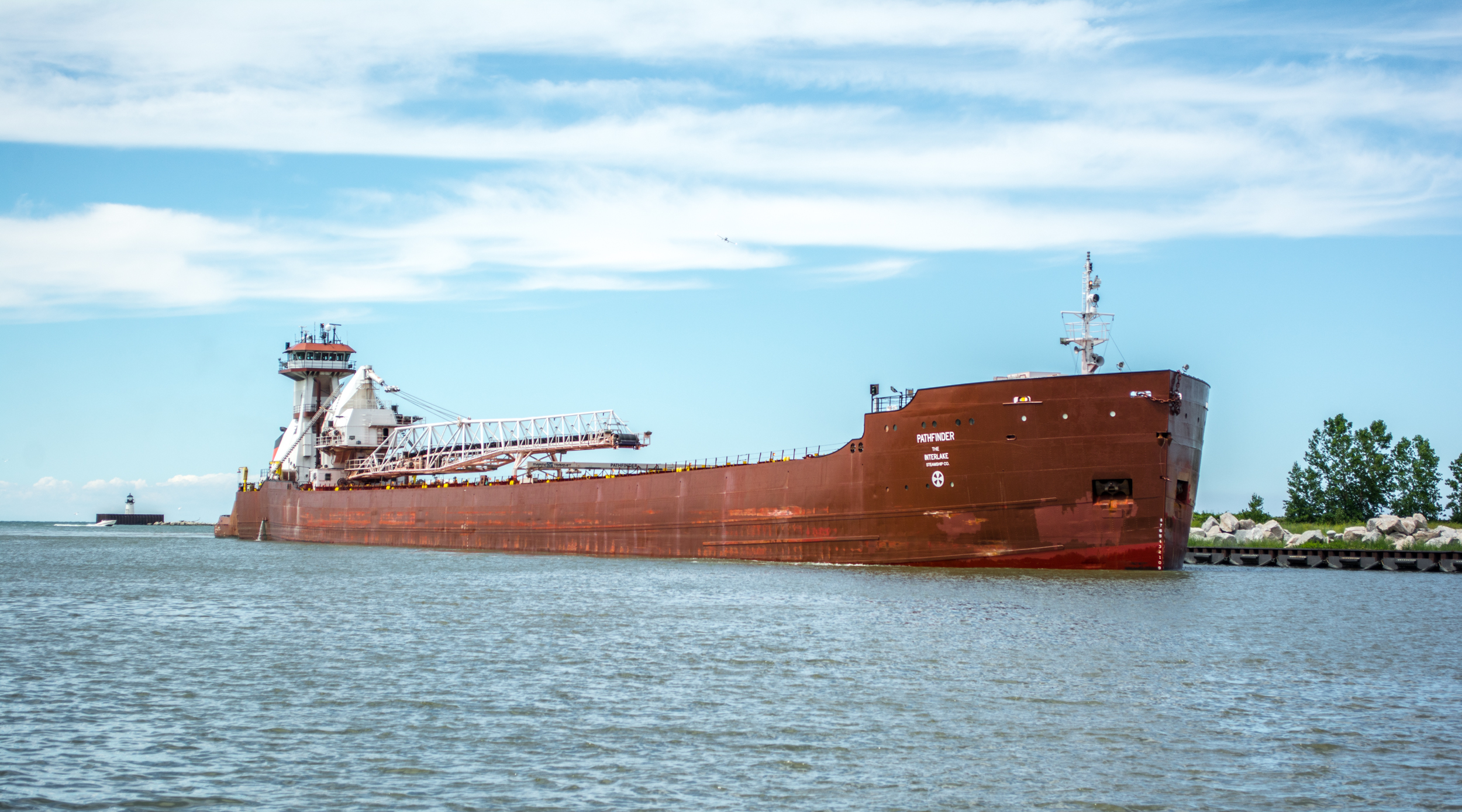 Tug Dorothy Ann (left) and the SS Pathfinder enter the Cuyahoga River at Cleveland, Ohio, in the United States in June 2017. The Pathfinder was built in 1953 as the straight-deck bulk carrier J. L. Mauthe. She was converted to a self-unloading barge in 1998.